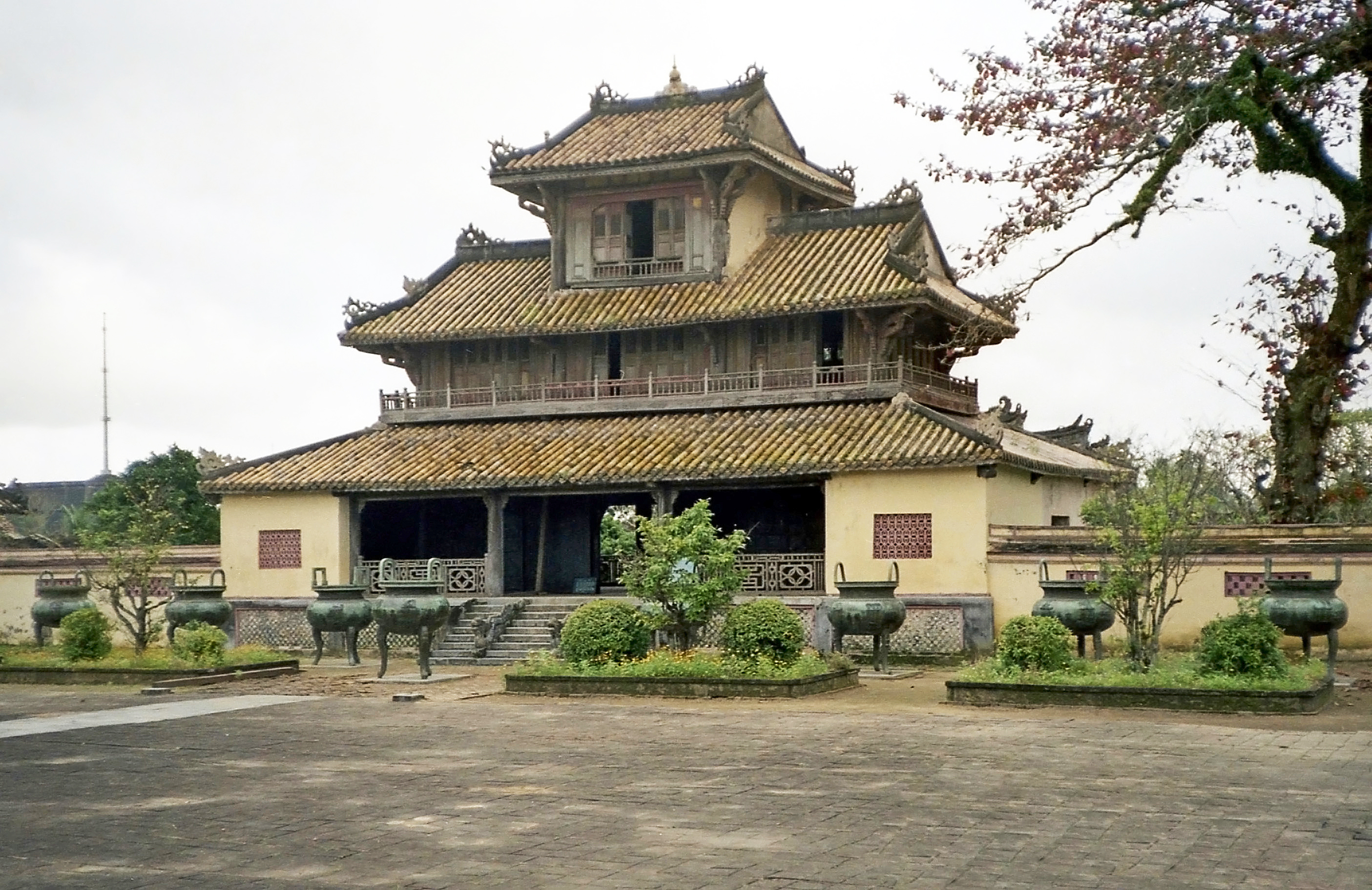 Hien Lam Cac pavilion, Imperial City, Hue